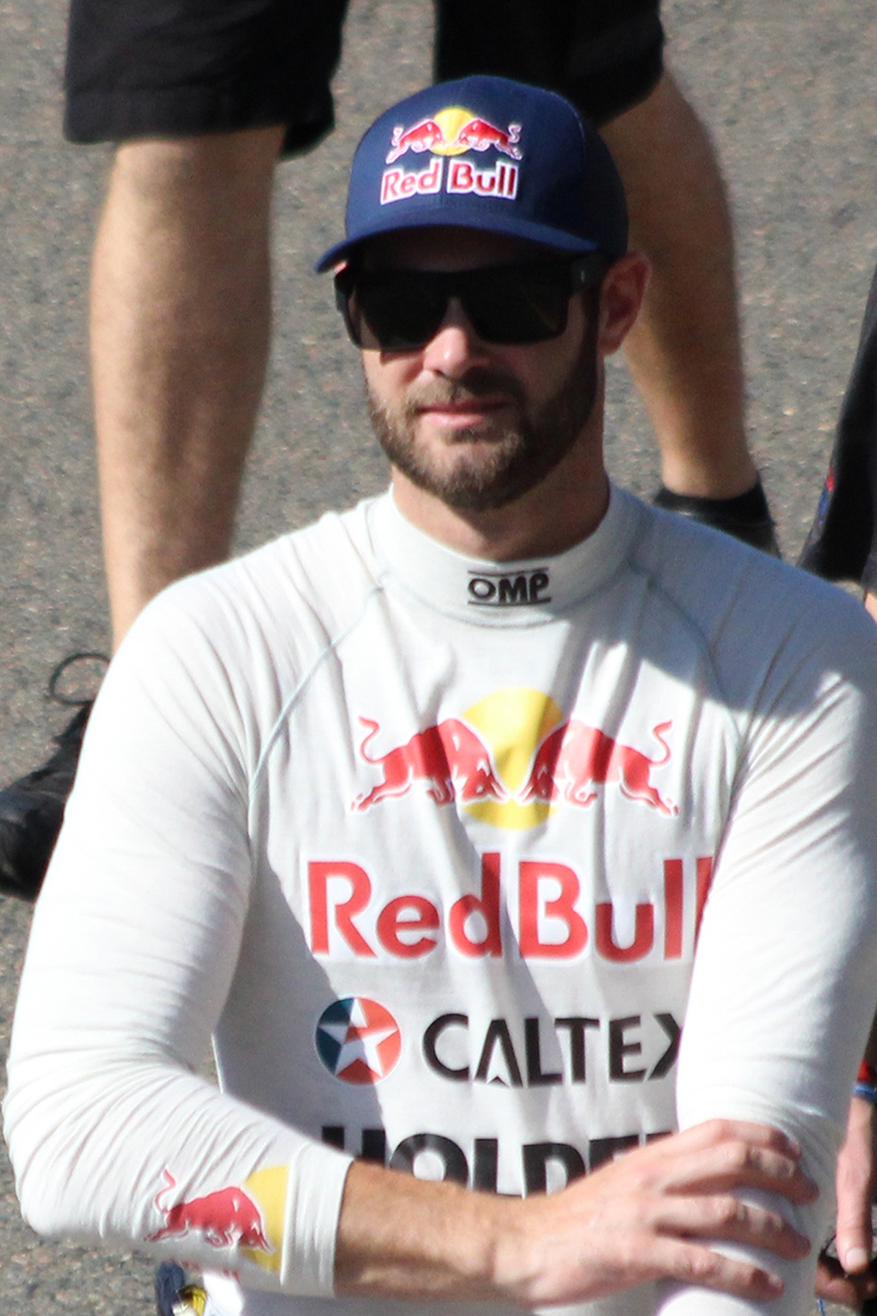 Shane van Gisbergen at the 2016 Porsche Rennsport Motor Racing Festival.